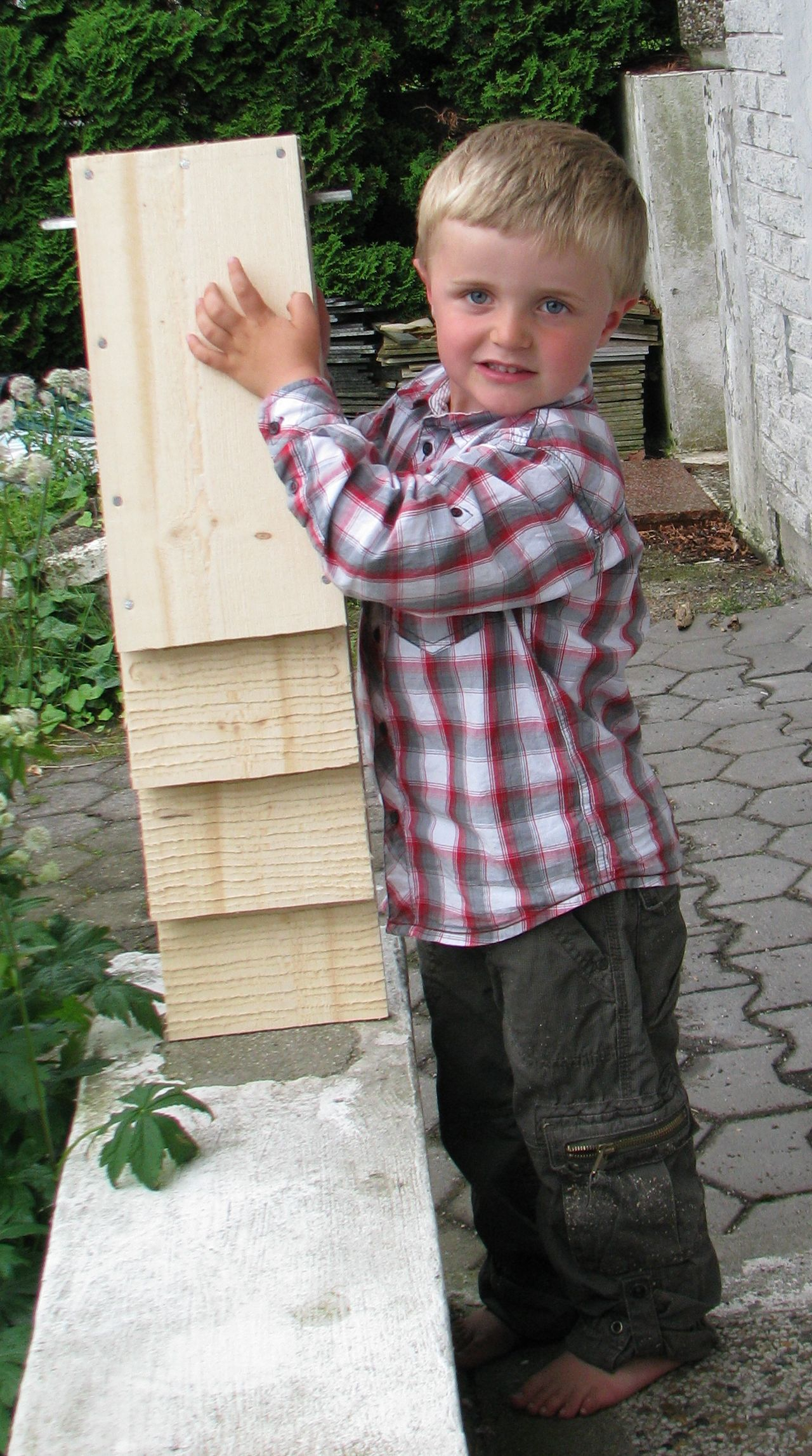 Bat box